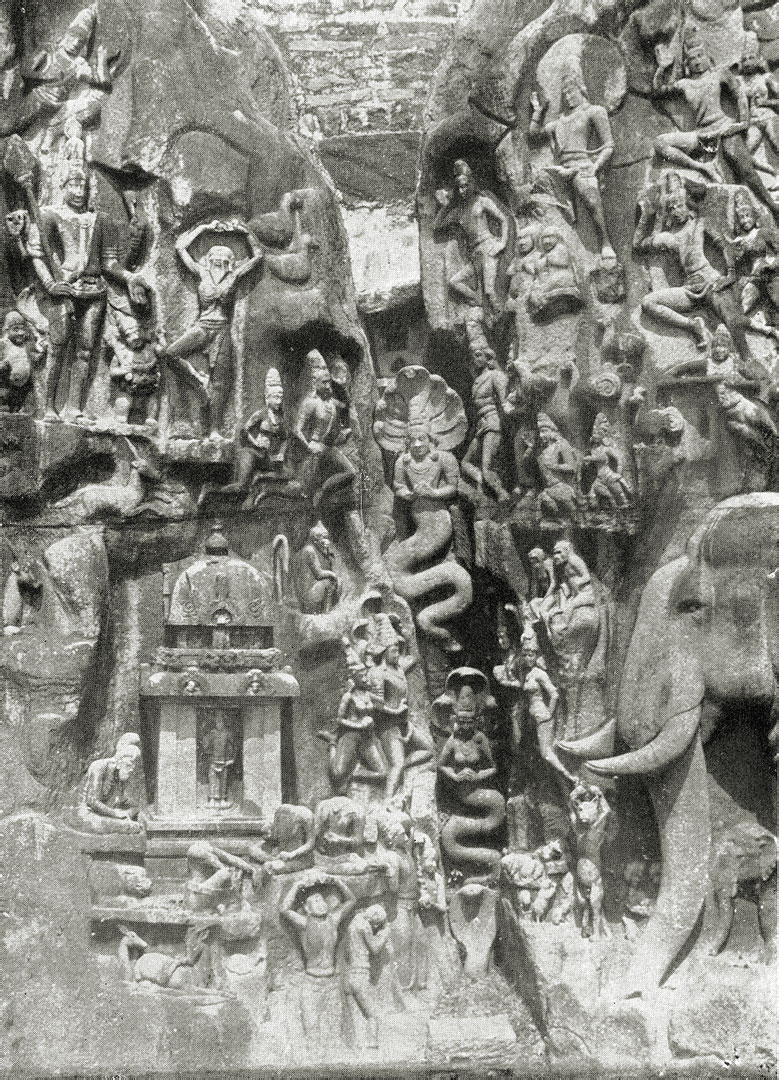 Relief of the "Descend of the Ganga" in Mahabalipuram (also Mamallapuram), India; the complete relief measures 9 x 27 m.